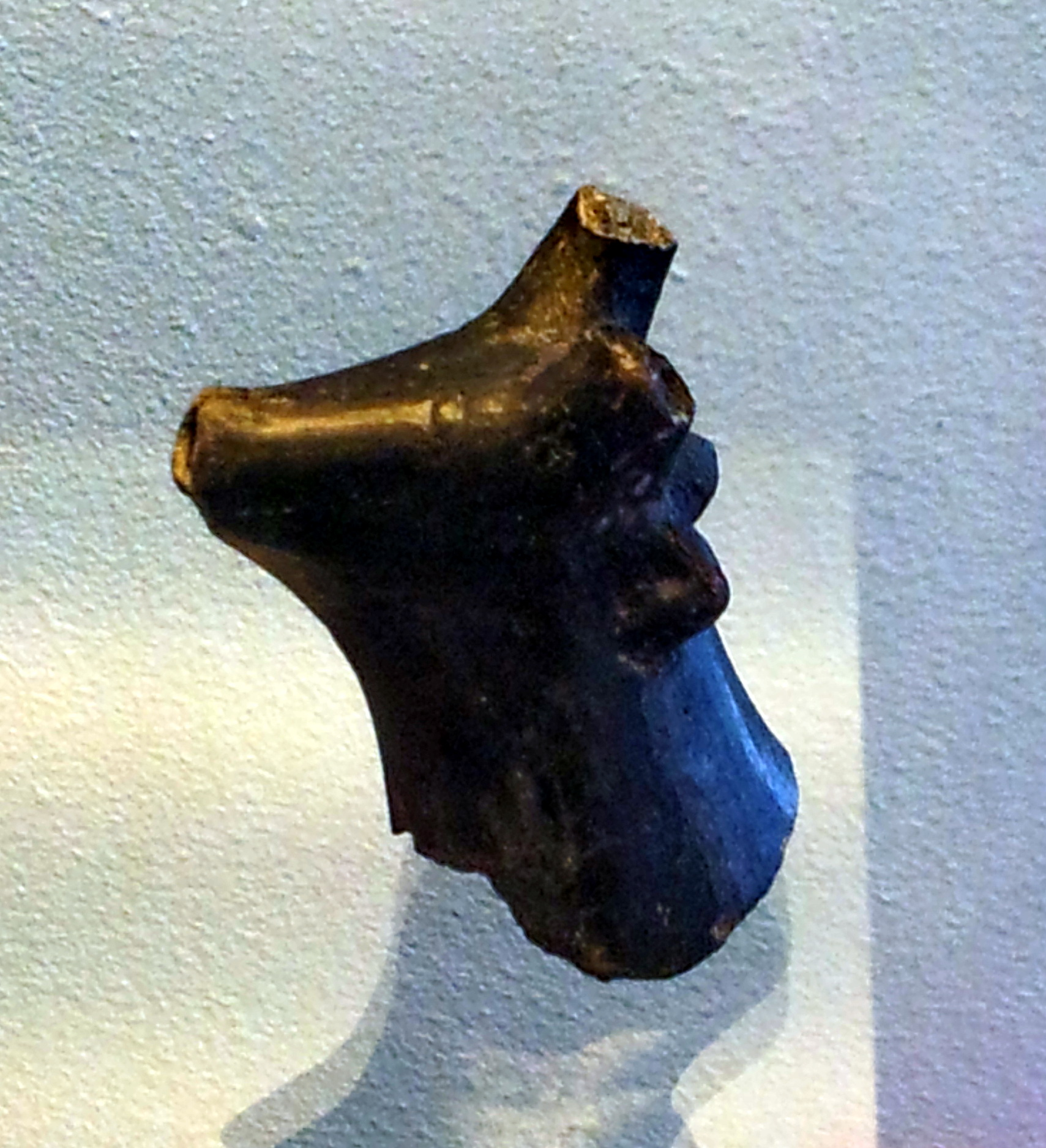 Fragment of a La Tène period Celtic jar or jug from the 1st century BC, found during the Derlon excavation in Maastricht in 1983. The sculpture represents a bull's head that serves as a spout. The object was photographed as part of a traveling exhibition about early Roman Maastricht, Heerlen, Aachen and Jülich, Augustus op het spoor, in December 2015 in Centre Céramique, Maastricht, the Netherlands.